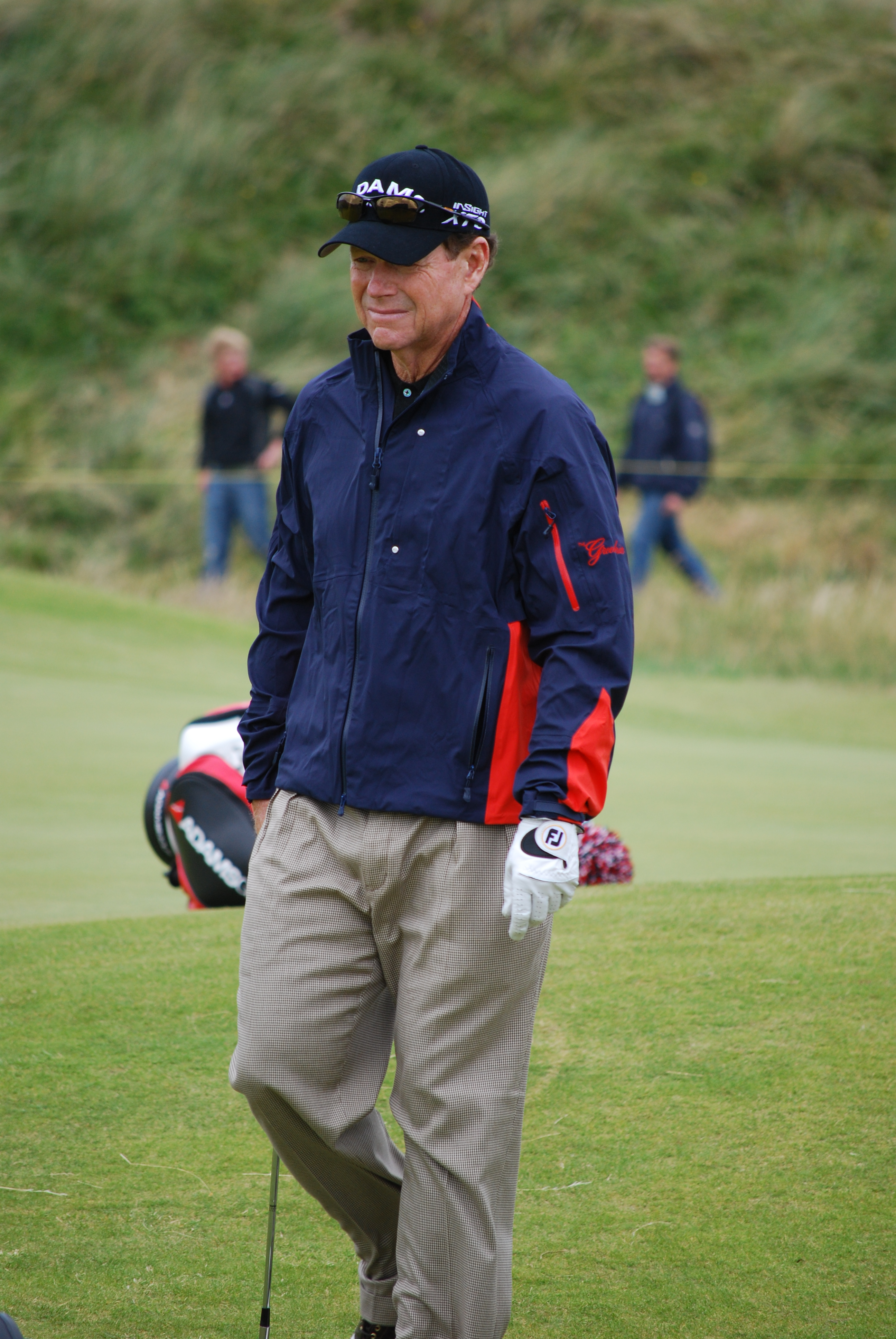 SOUTHPORT, UNITED KINGDOM - JULY 16: Tom Watson of the USA during the third practice round of the 137th Open Championship on July 16, 2008 at Royal Birkdale Golf Club, Southport, England. (Photo by Ian Tillbrook)